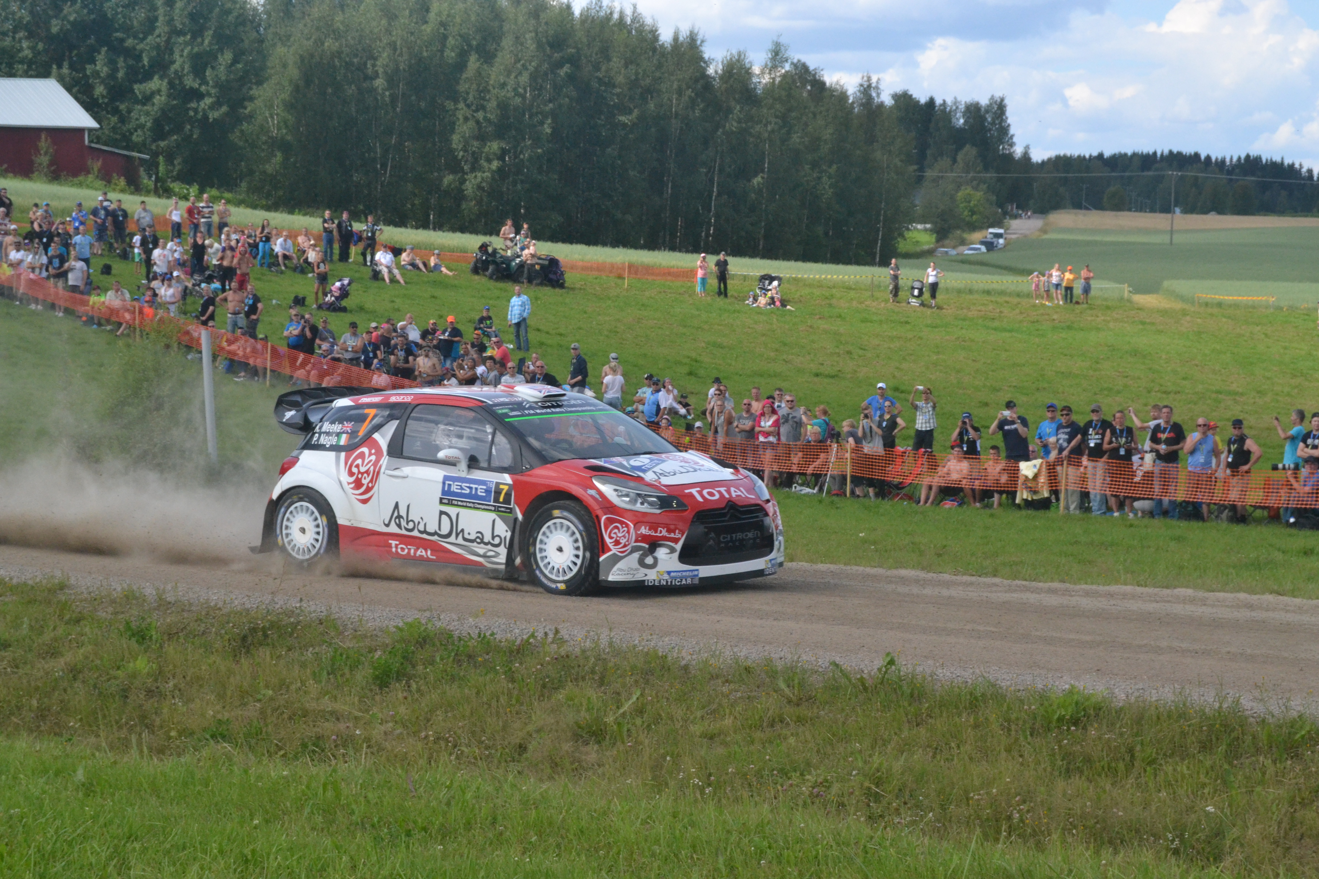 Kris Meeke at Äänekoski–Valtra stage at Rally Finland 2016